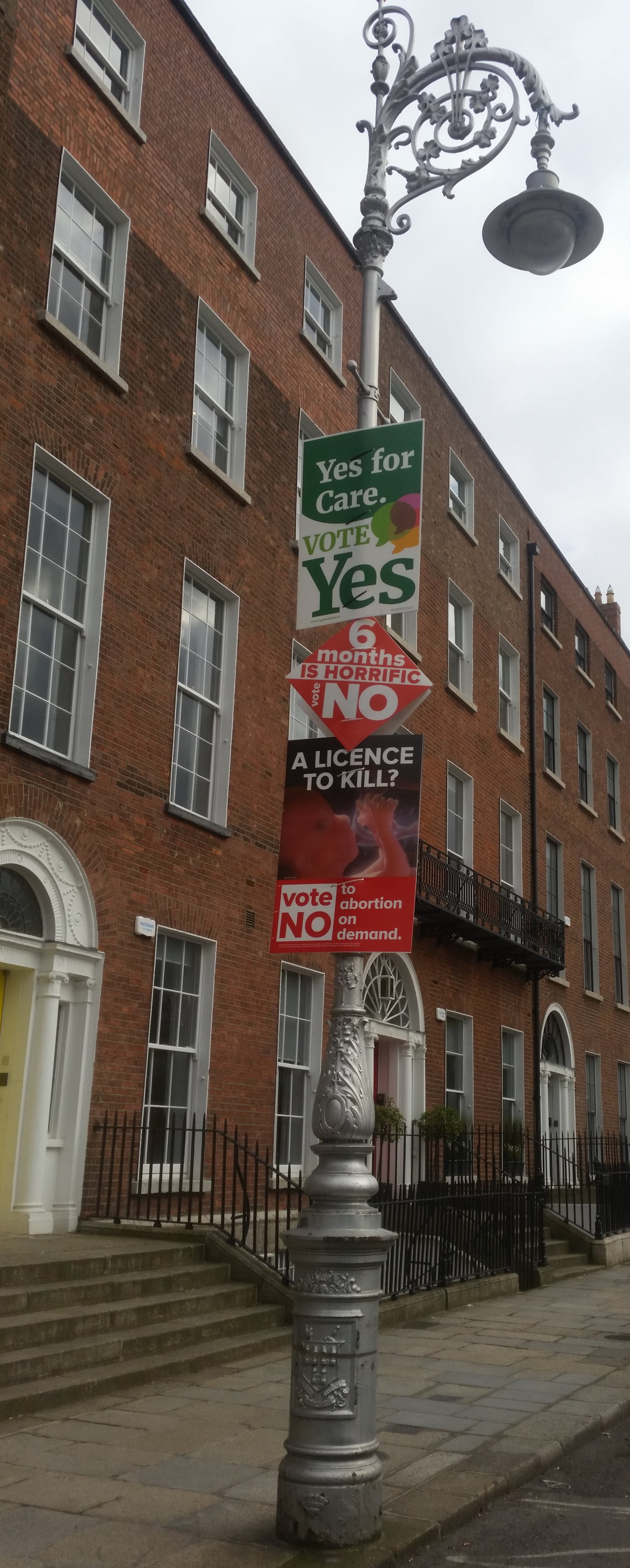 Street scene of Georgian terrace in Dublin with posters from the May 2018 referendum campaign